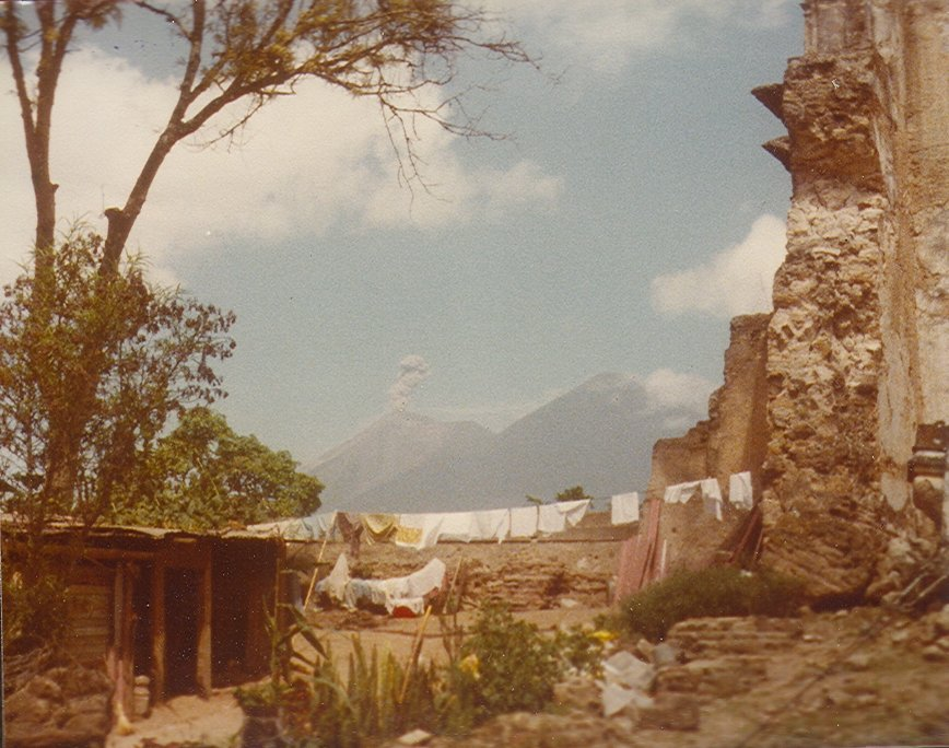 Antigua Guatemala. A homestead in the ruins of a Spanish colonial building, with the Volcán de Fuego (left) and Acatenango (right) visible in the distance. Photo by User:Infrogmation, 1979, released under GNU Free Documentation License.